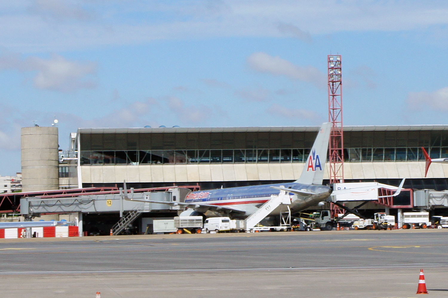 Jetliner from AA at Brasília–Presidente Juscelino Kubitschek International Airport